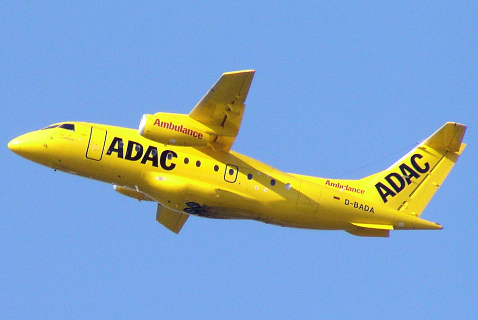 Description: ADAC Dornier Do 328-300 in Düsseldorf, October 2005. Photographer: Arcturus Licence: GFDL + cc-by-sa-2.0-de